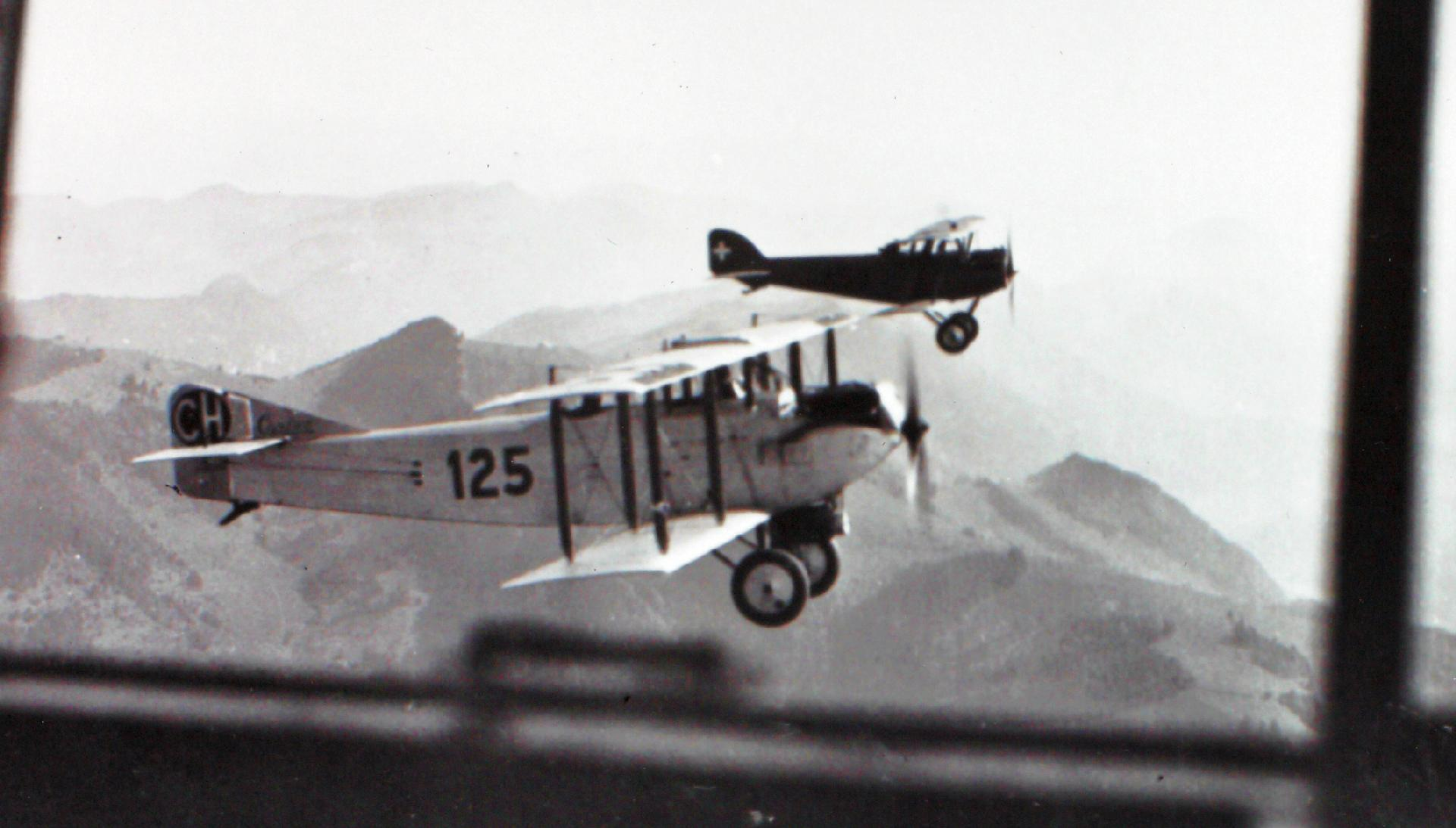 A Caudron C.59 (CH-125/HB-ABO, c/n 377, owner: Aviatik beider Basel/Basle-Birsfelden, immatriculation : 23.08.23) and a Swiss Air Force Häfeli DH-5 in flight.